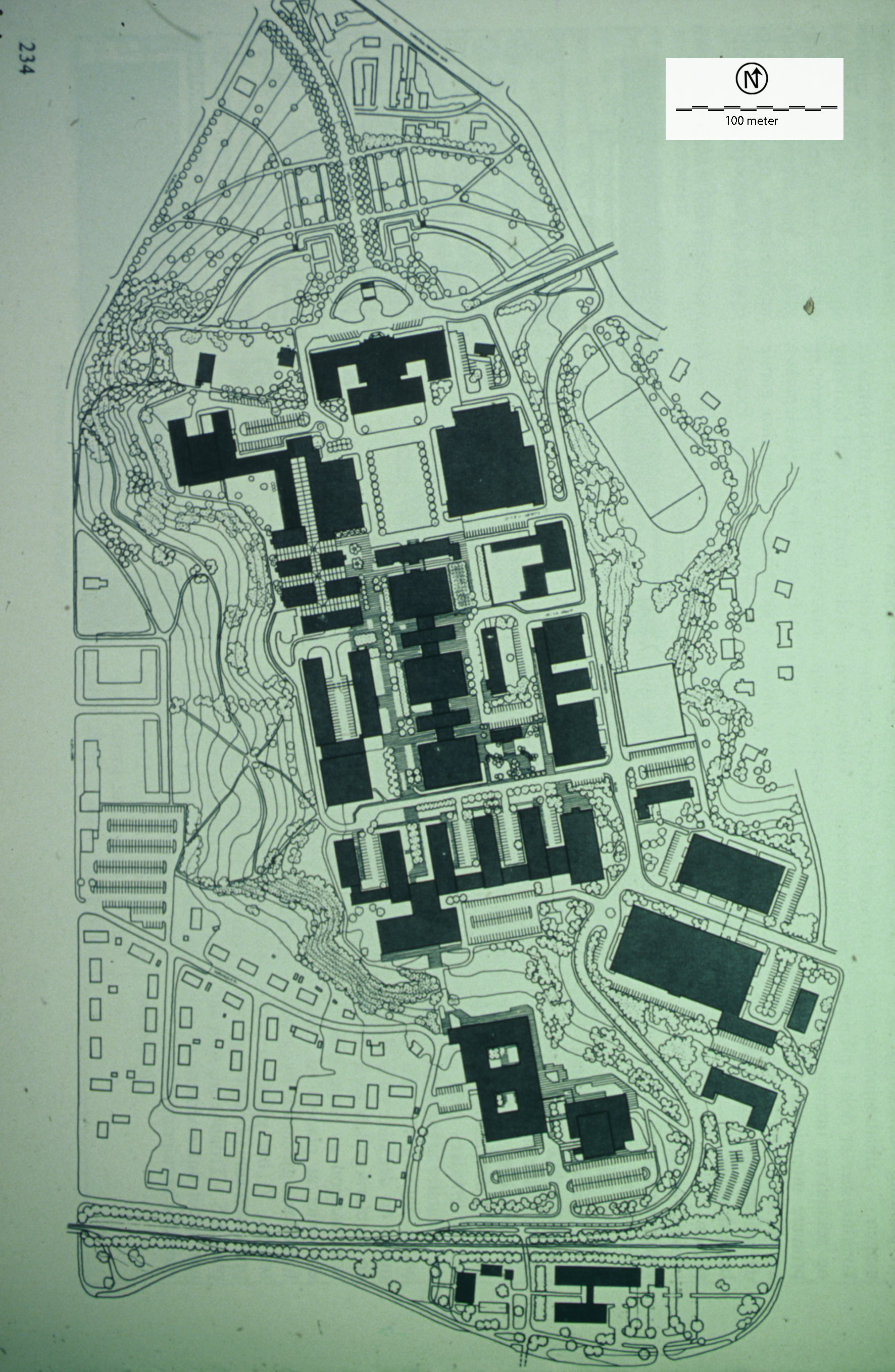 Landscape architect Aasen's plan for treatment of the park and outdoor areas at NTH, now known as Campus NTNU Gløshaugen, Trondheim. This plan was drawn in 1970 - and was followed for the next 15-20 years until the park was well established.